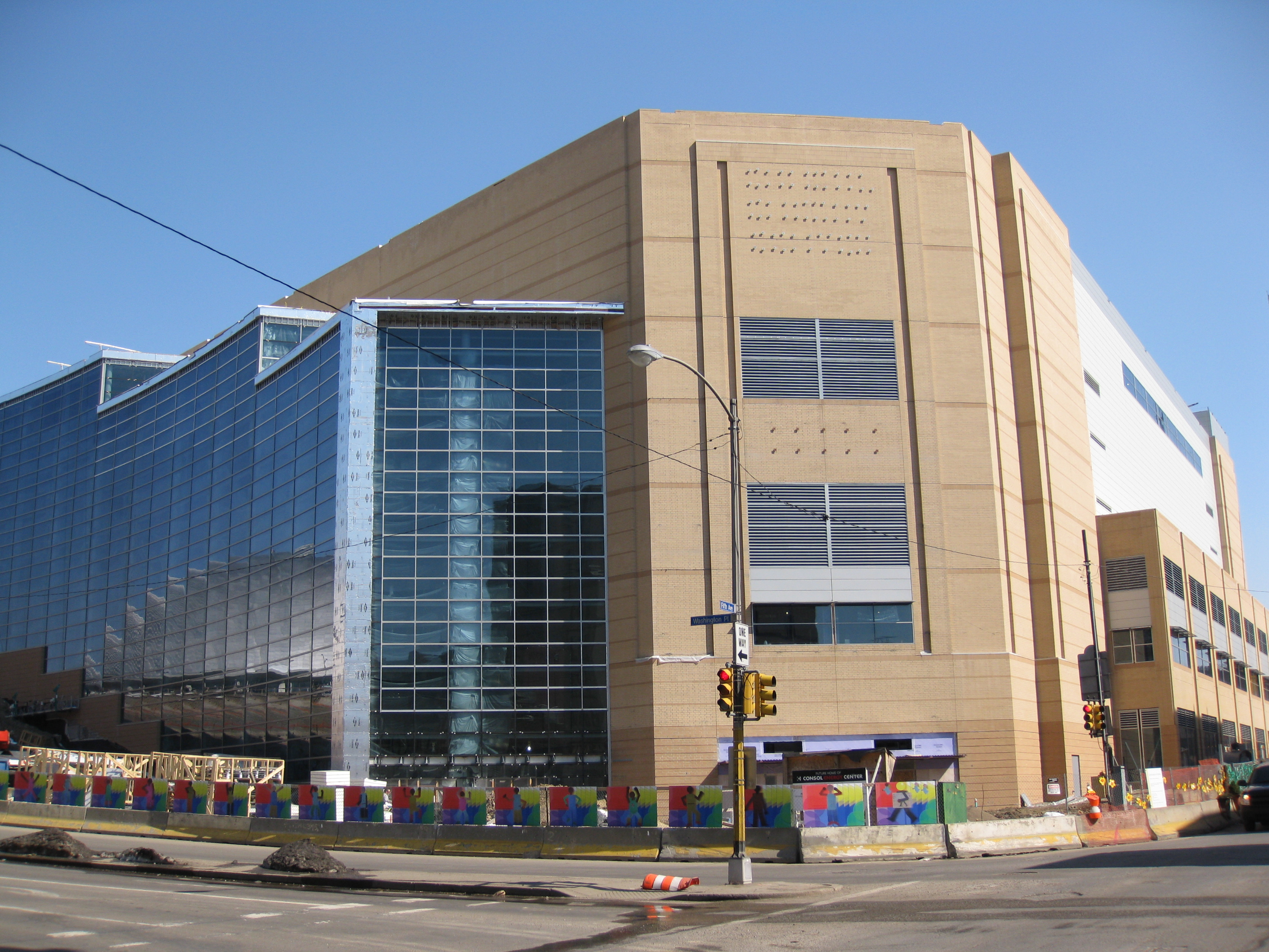 Consol Energy Center, scheduled to open in Pittsburgh in August 2010